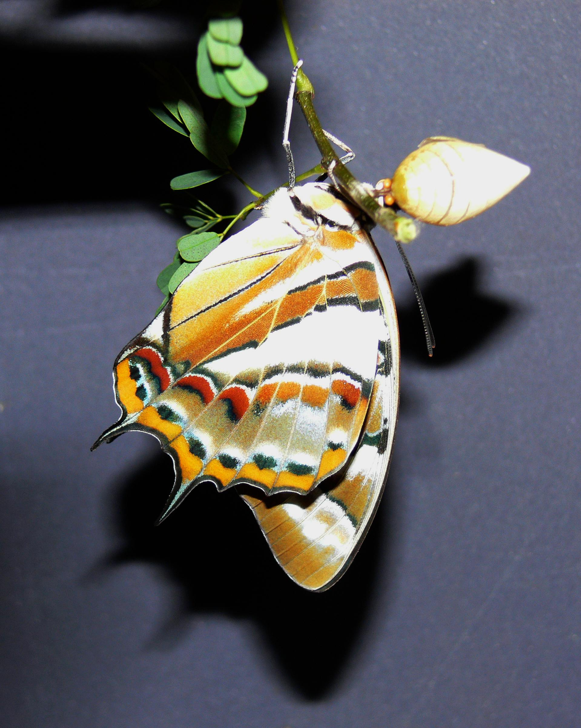 A Tailed Emperor butterfly emerges from its chrysalis.